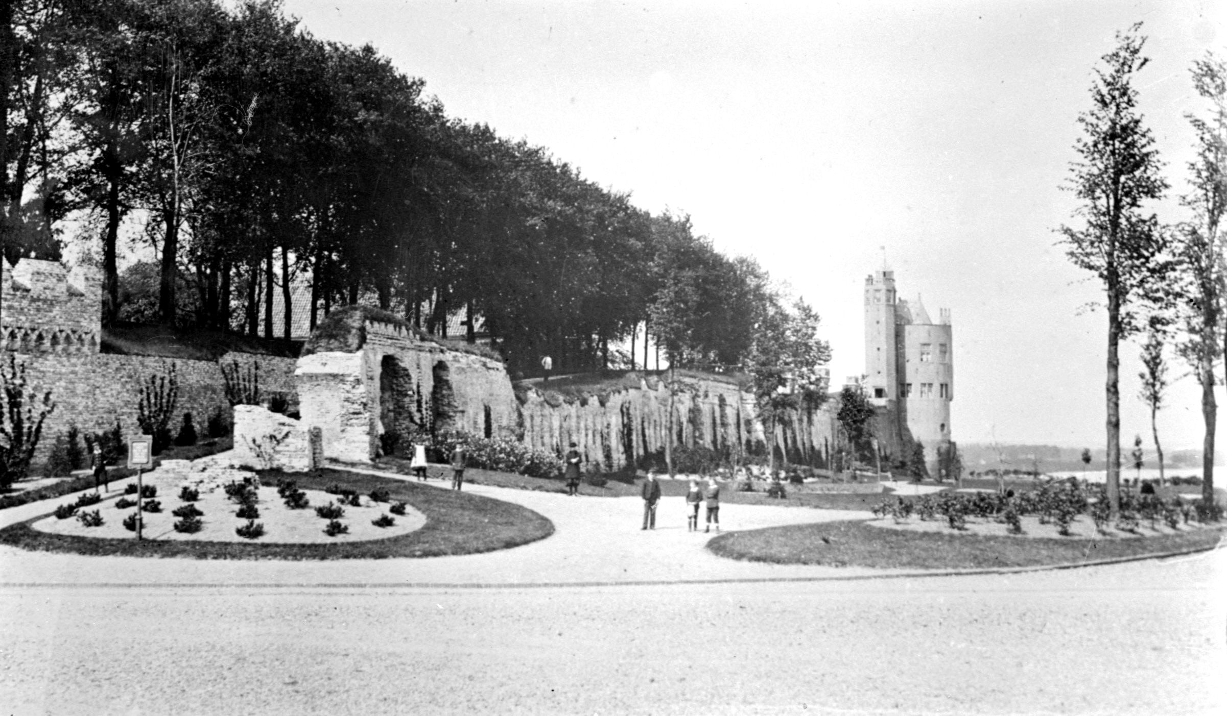 Vieuw from the Hunnerpark, on the Belvédère 1890 Nijmegen